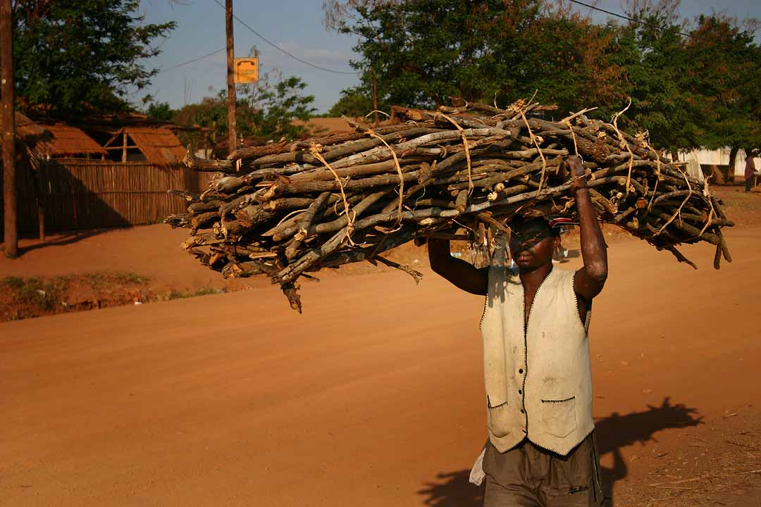 Carrying firewood in Mozambique